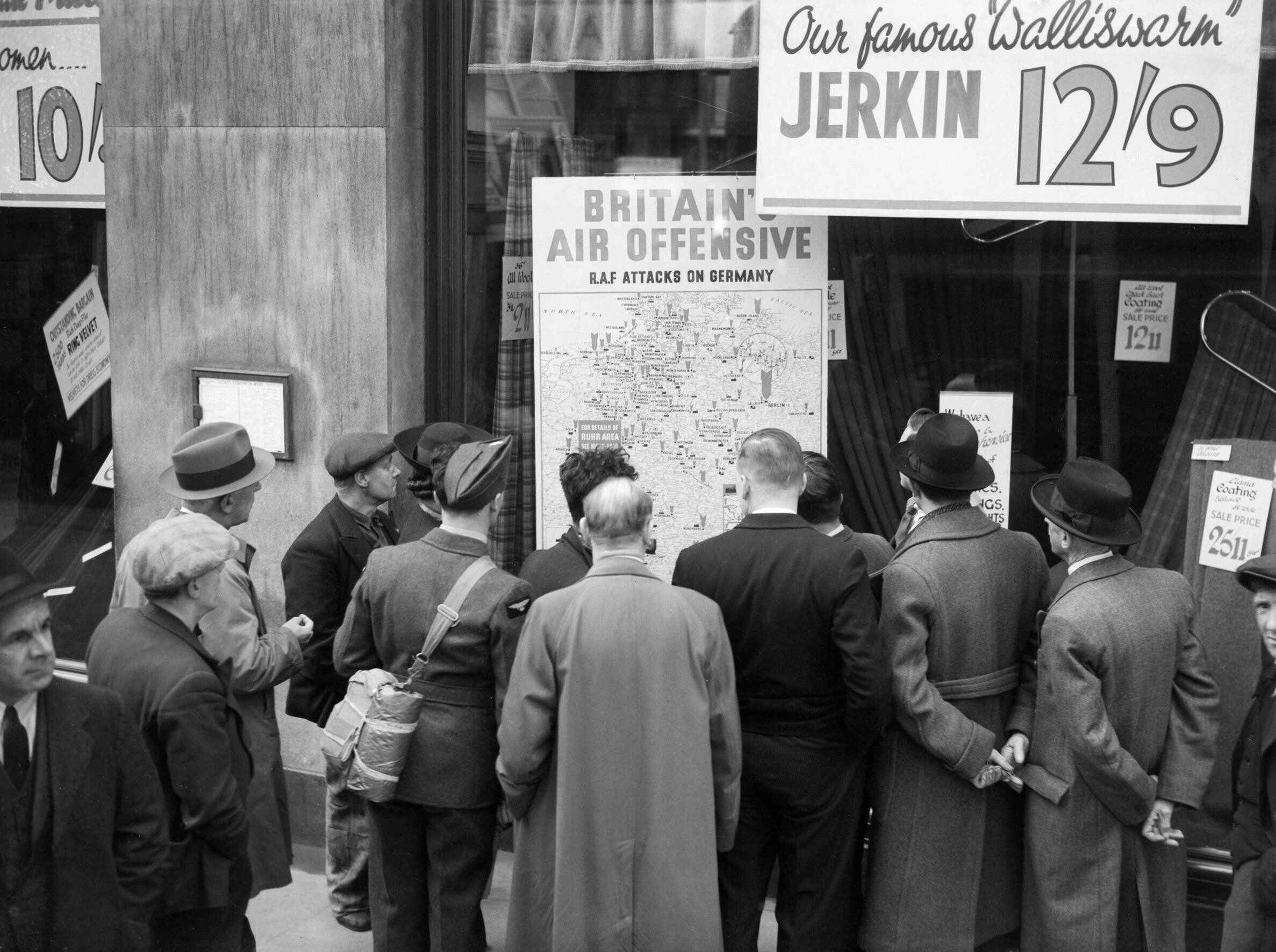 A British airman is amongst a group of civilians crowded around the window of a shop in Holborn, London, to look at a map illustrating how the RAF is striking back at Germany during 1940. A British airman is amongst a group of civilians crowded around the window of a shop in Holborn, London, to look at a map displayed there which is entitled 'Britain's Air Offensive' and shows over 700 raids by the Royal Air Force on Germany. According to the original caption, "over 1,000 patriotic retailers are making window displays this week featuring this poster which is issued by the General Production Division of the Ministry [of Information]".